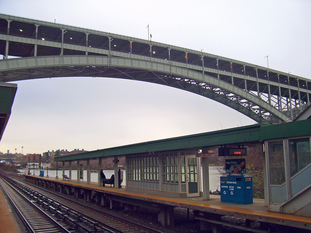 Photographed by Daniel Case looking south under less than ideal conditions 2006-11-23. Henry Hudson Bridge in the upper part of the picture